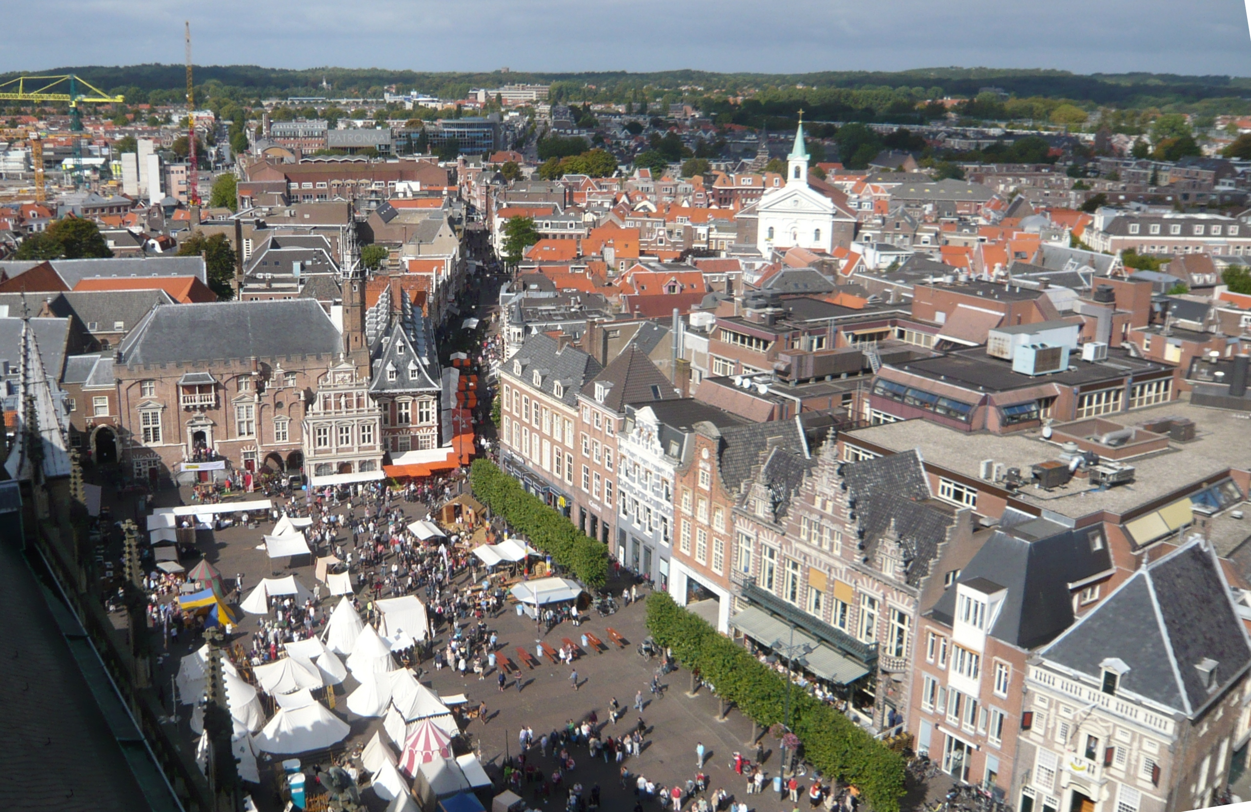 Looking down at Café Brinkman and the rest of the Grote markt, Haarlem. This cafe was built in 1902 across from the Vleeshal and echoes the old facade of that building built in 1602. During the years 1950-1970, the "Teisterbant" club founded by Godfried Bomans, met upstairs in this building.